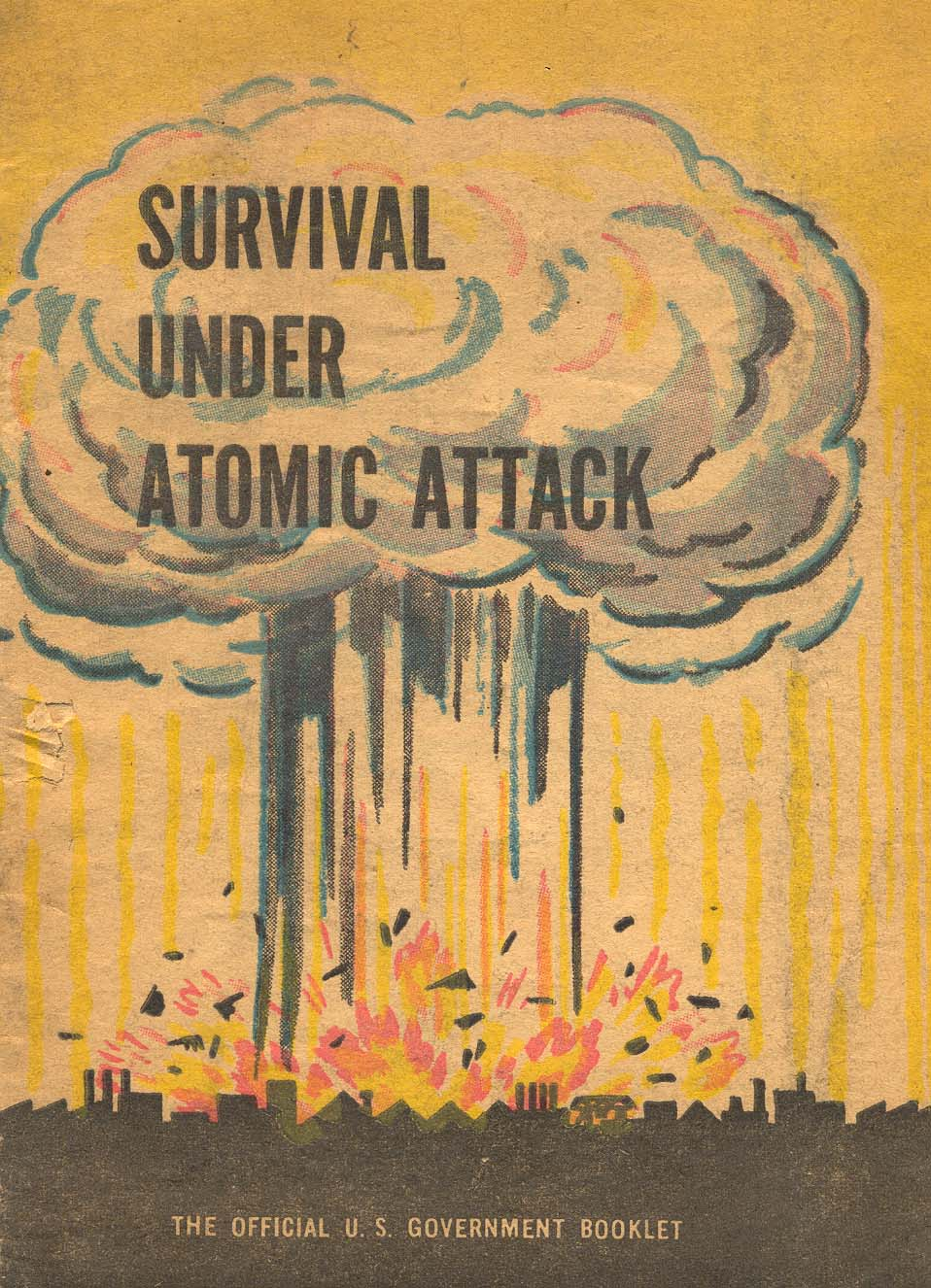 Executive Office of the President, NSRB, Civil Defense Office, 1950. Government Printing Office, Washington. Issued from the Cleveland Office of CIVIL DEFENSE, Room 121, City Hall.